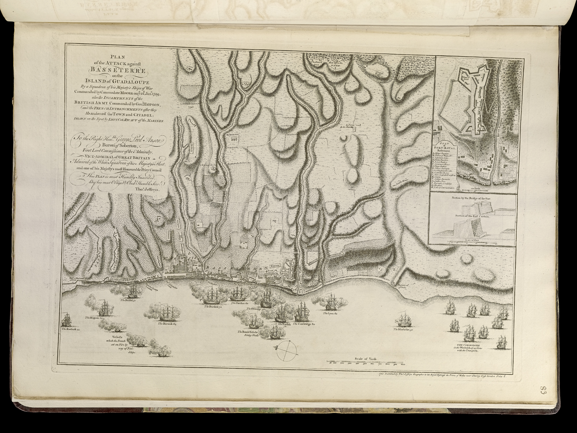 Zoom into at Publisher: Jefferys, Thomas, Sayer, Robert Date: 1768 Dimensions: 32 x 47 cm. Scale: [ca. 1:11,700] Reference: Phillips. List of maps of America, p. 136 Reference: Phillips, 1196 Call Number: G1105 .J4 1768